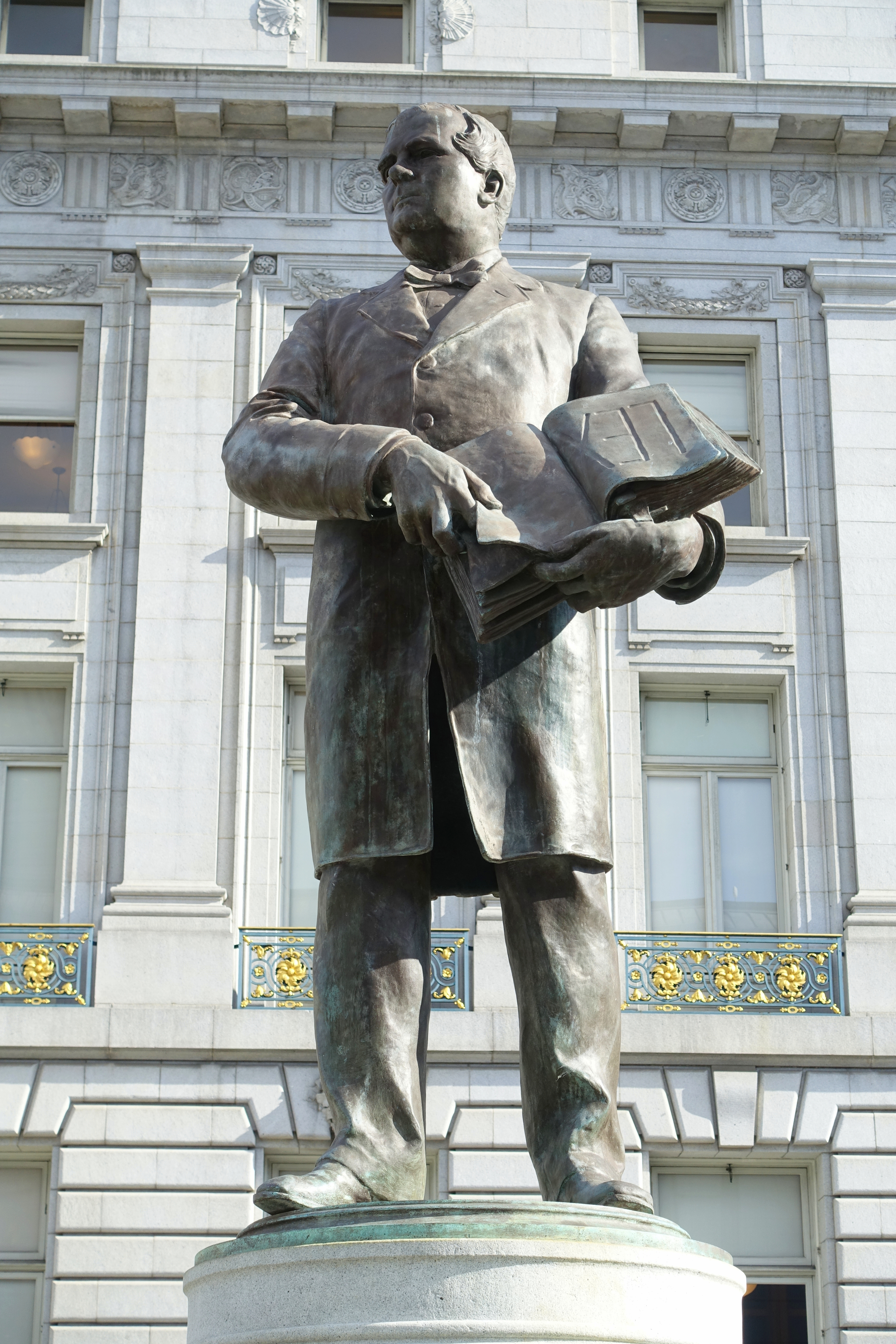 Hall McAllister by Robert Ingersoll Aitken (1878–1949) - San Francisco, California, USA. Dedicated in 1904. Smithsonian control number IAS 76004807. SIRIS entry: [1]. Inscriptions: (Sculpture:) R. I. AITKEN SC 1904/GLOBE BRASS AND BELL F'DRY/S.F. CAL.(Sculpture, left page of book:) LEX (Base, front:) HALL MCALLISTER/LEADER OF THE CALIFORNIA BAR/LEARNED ABLE ELOQUENT/FEARLESS ADVOCATE/A COURTEOUS FOE. This artwork is in the public domain because it was first published in the United States before 1923.